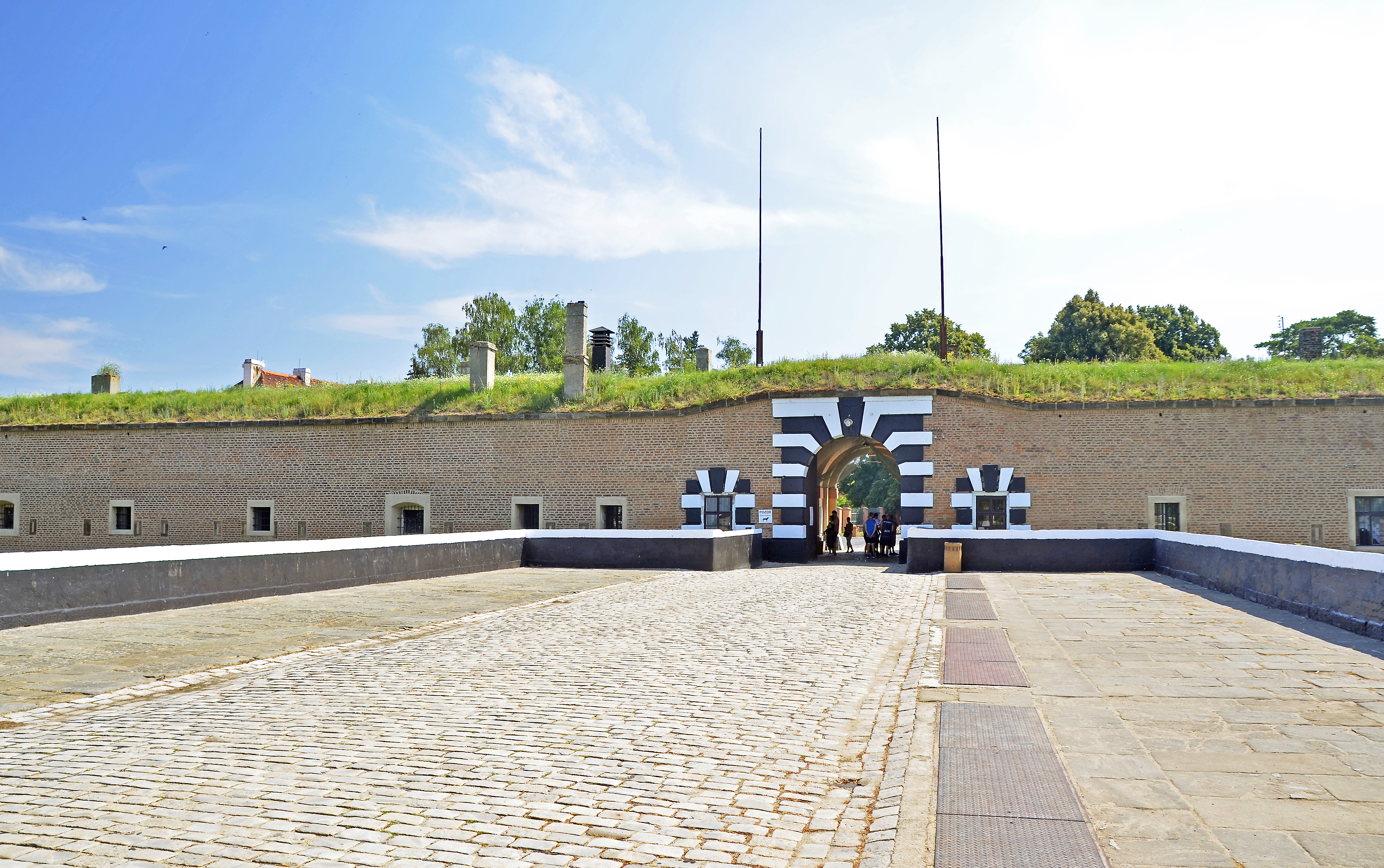 Terezin (Czech Republic) (Theresienstadt concentration camp) - Main Gate